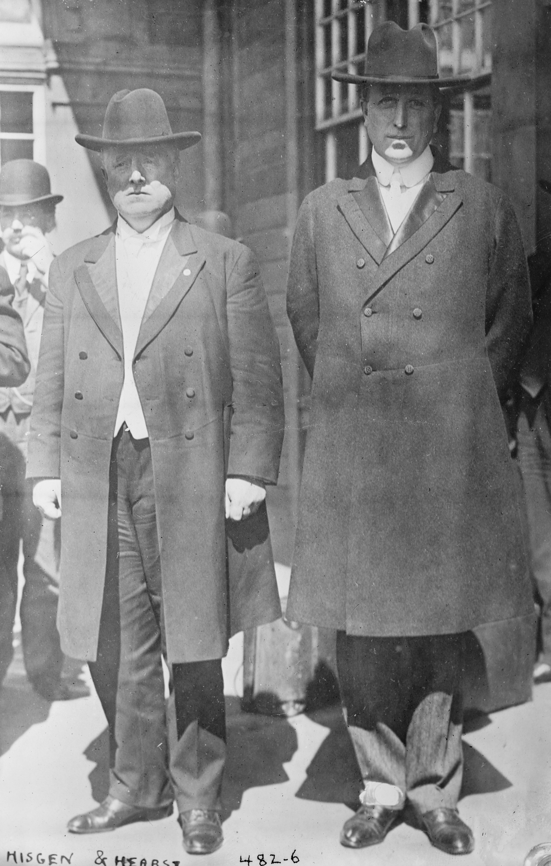 Thomas L. Hisgen (1858-1925) and William Randolph Hearst (1863-1951) in New York City, probably 1908. Hisgen was the nominee for President of the United States of the Independence Party, bankrolled by Hearst.